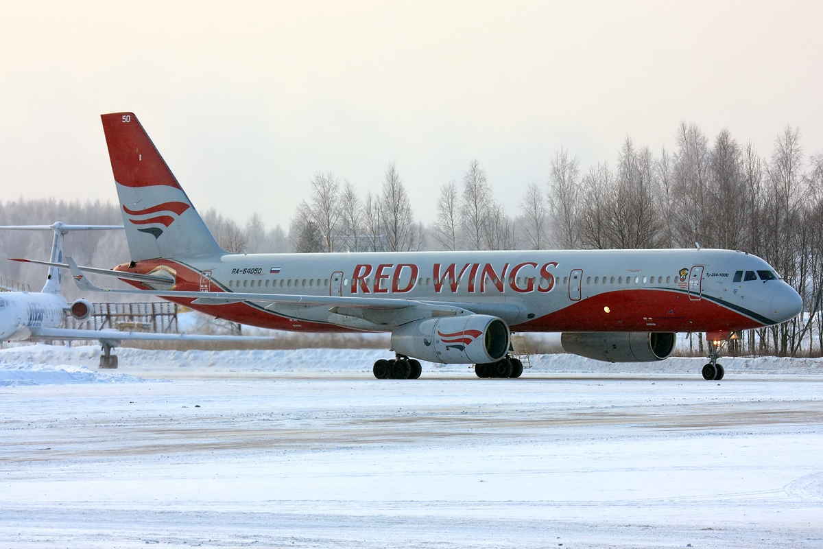 Red Wings Airlines Tupolev Tu-204-100V